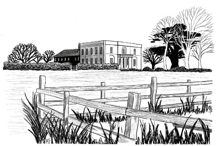 Walton Hall, headquarters of the Open University, in 1970. Pen & Ink drawing by Hilary French from a photo by Tony French.